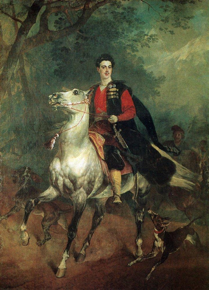 Anatole Demidoff, (or Demidov) Prince de San Donato